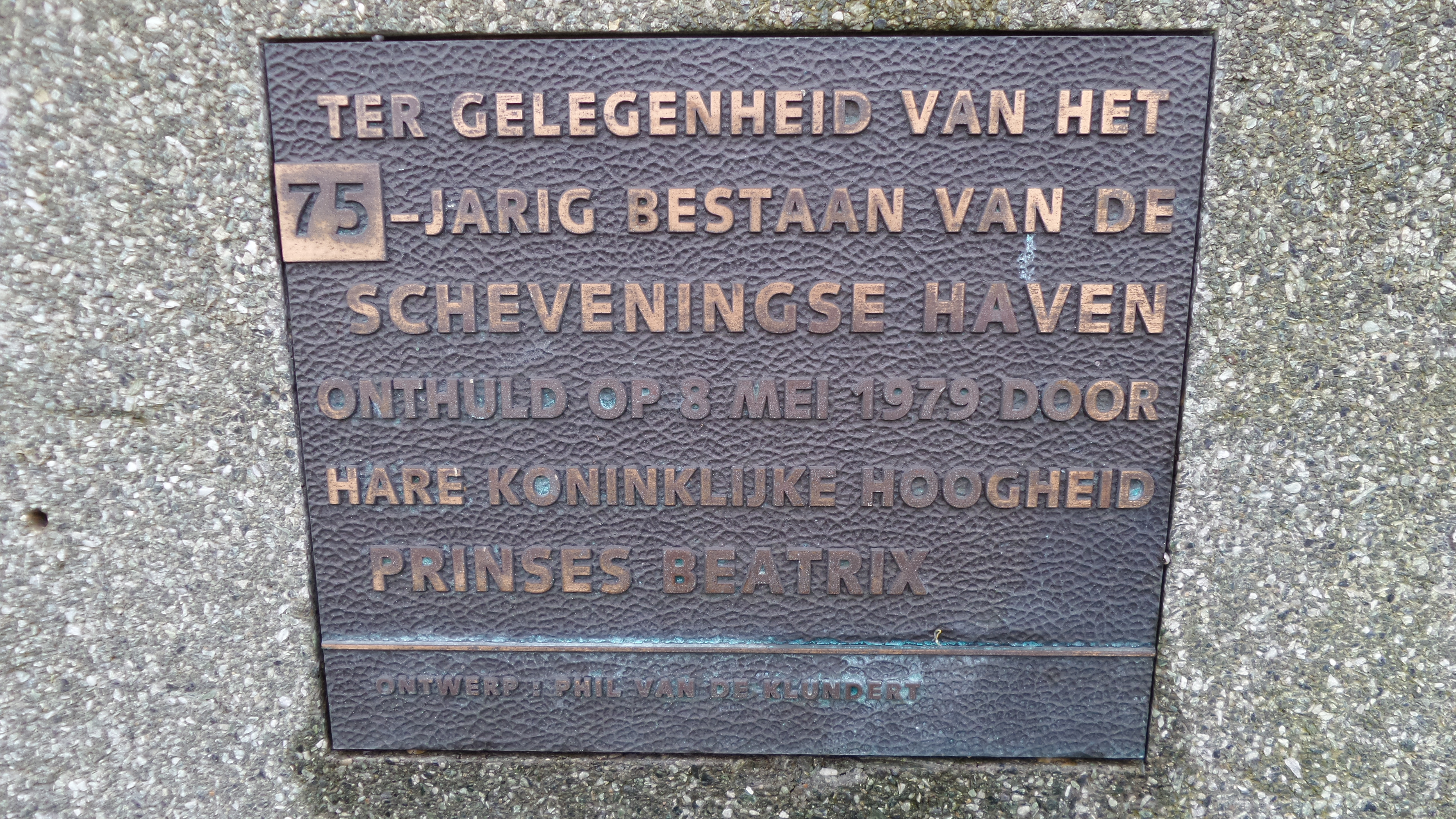 Harbour Monument Plate, Scheveningen, Netherlands